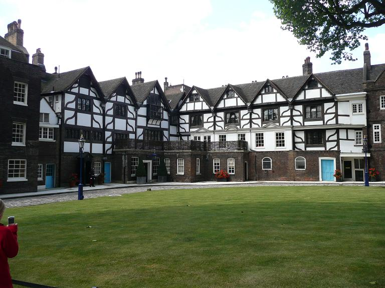 Around the Tower of London